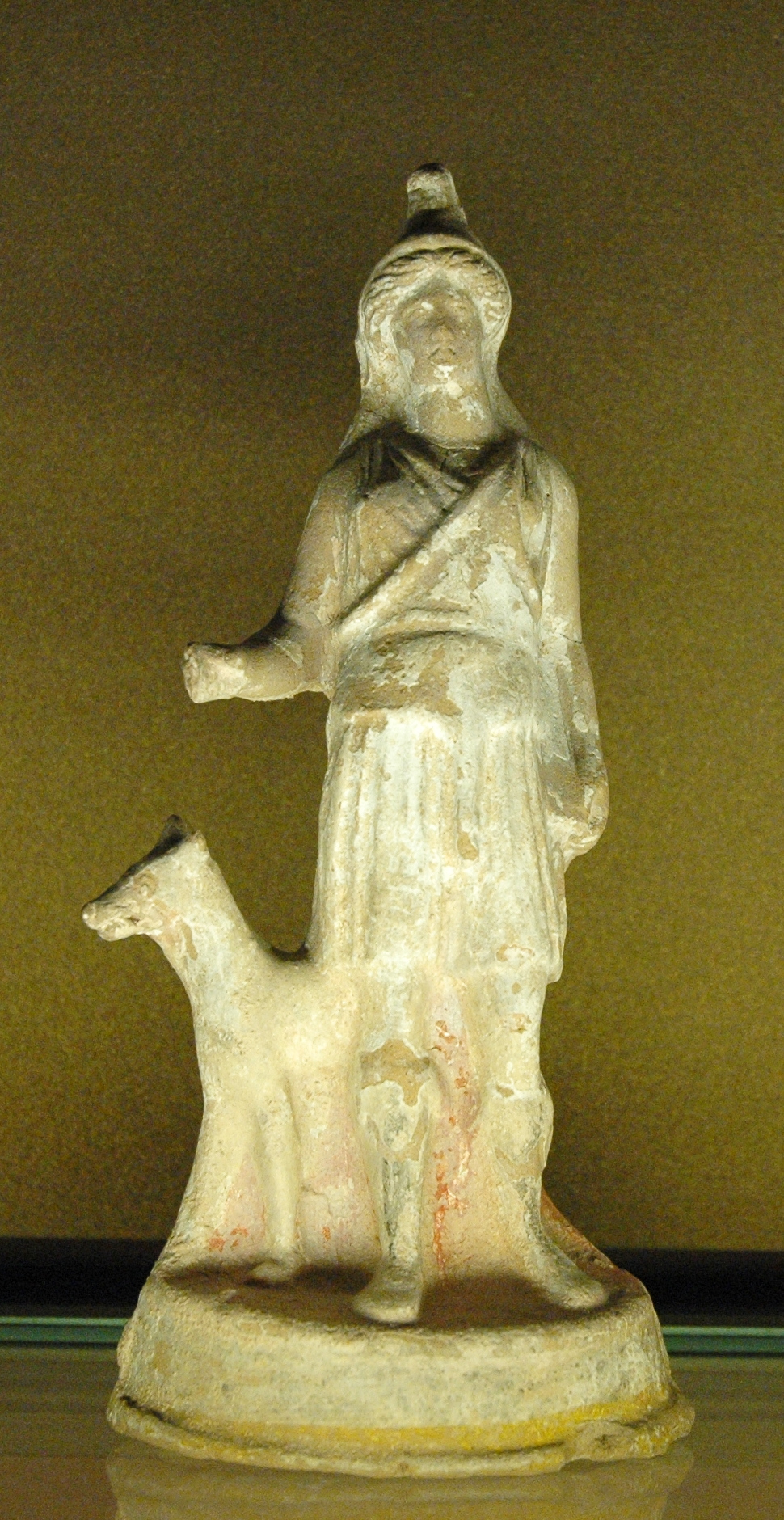 Artemis Bendis, Thracian goddess of the hunt identified with Artemis by the Greeks, here recognizable by the Phrygian cap and the fawn-skin. Terracotta, ca. 350 BC, may come from Tanagra.